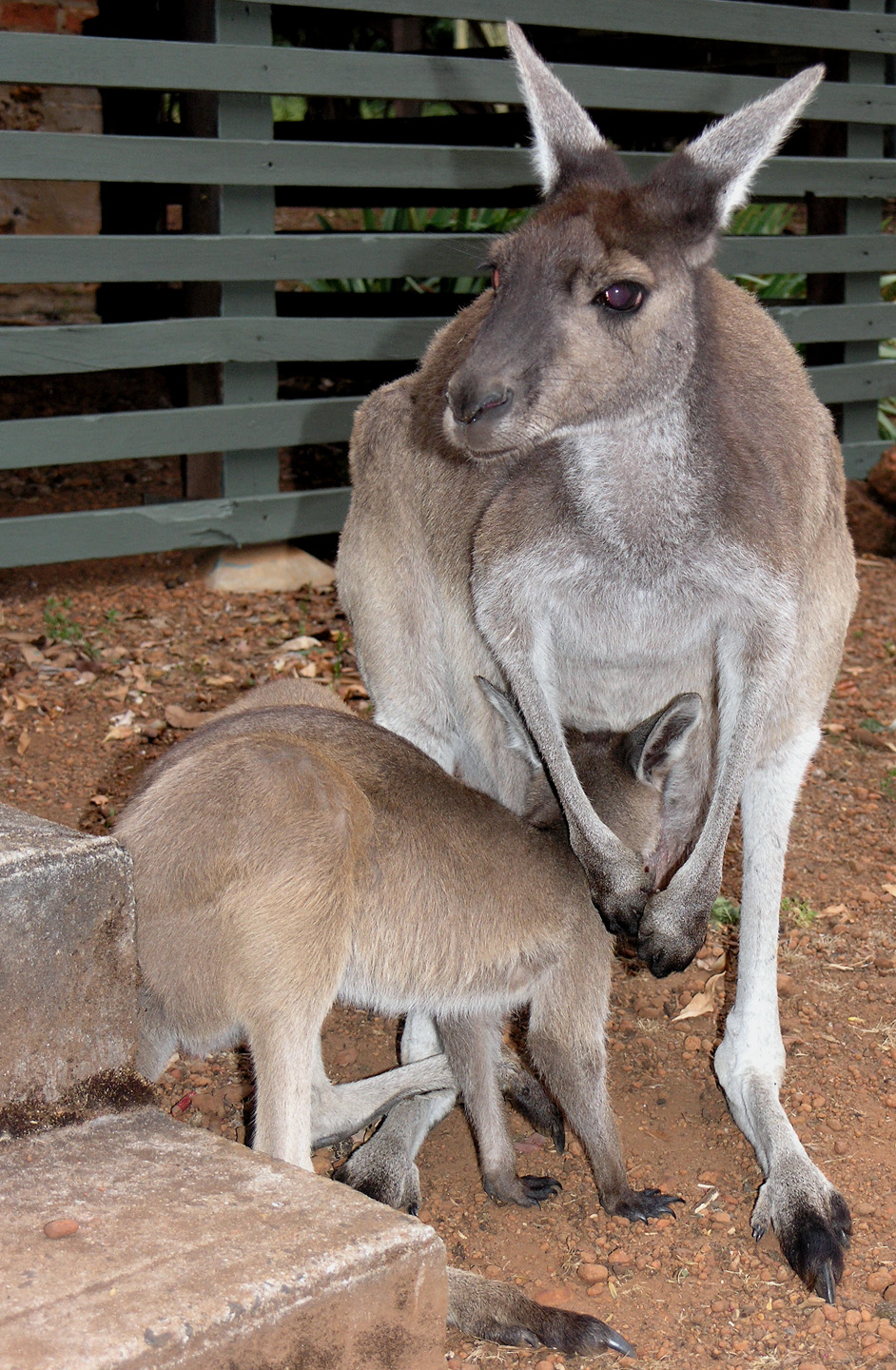 (Macropus fuliginosus) Grey Roo with Joey, taken at Donnelly Mills, Western Australia, by me SeanMack.